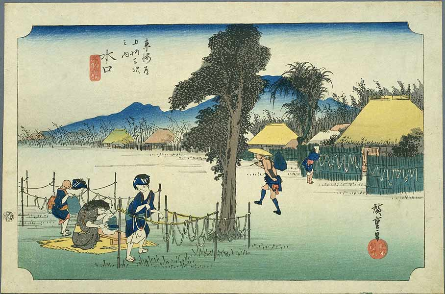 Minakuchi on the Tokaido, ukiyo-e prints by Hiroshige